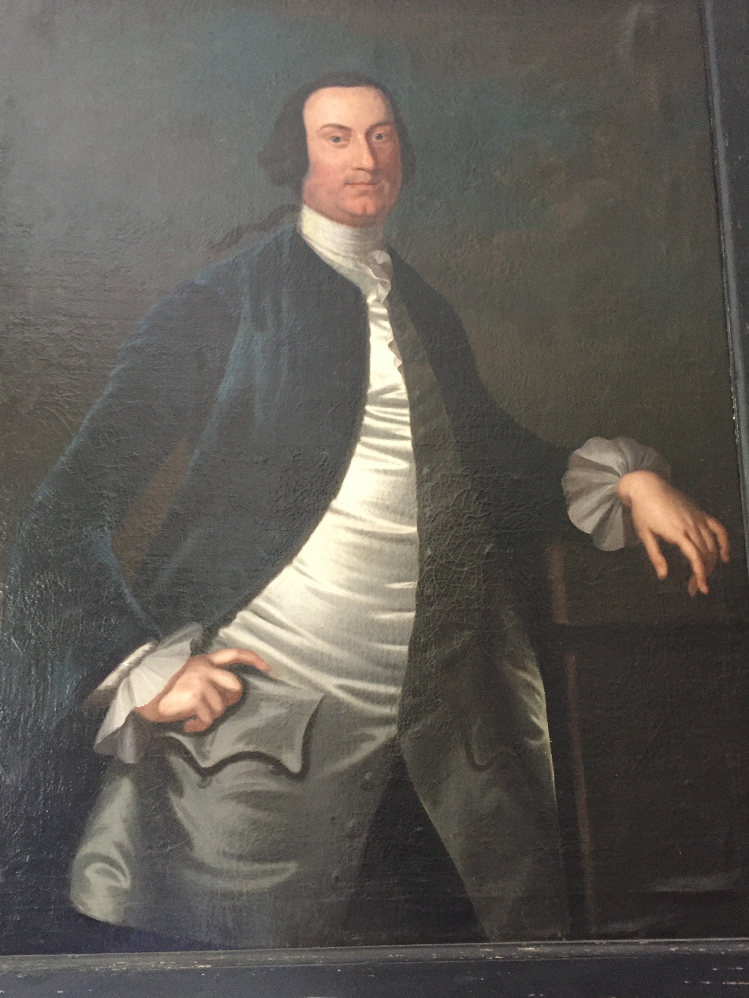 Portrait by John Wollaston, photo by Tayloe Cook